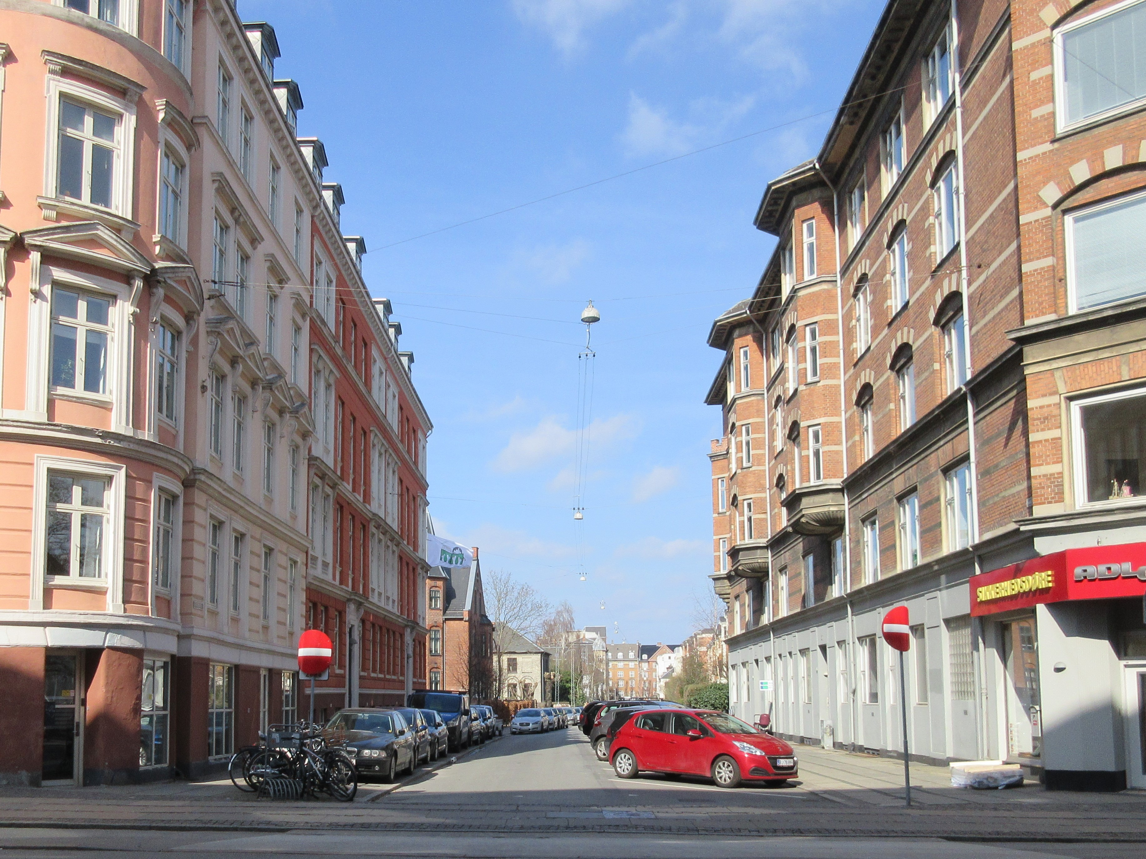 Kochsvej from Vesterbrogade in Copenhagen, Denmark